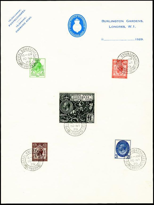 1929 British PUC stamps on UPU letter-paper.